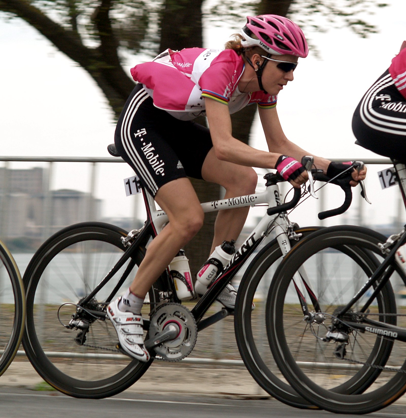 German cyclist Judith Arndt (T-Mobile) riding in the 2007 Geelong World Cup, Geelong, Australia.